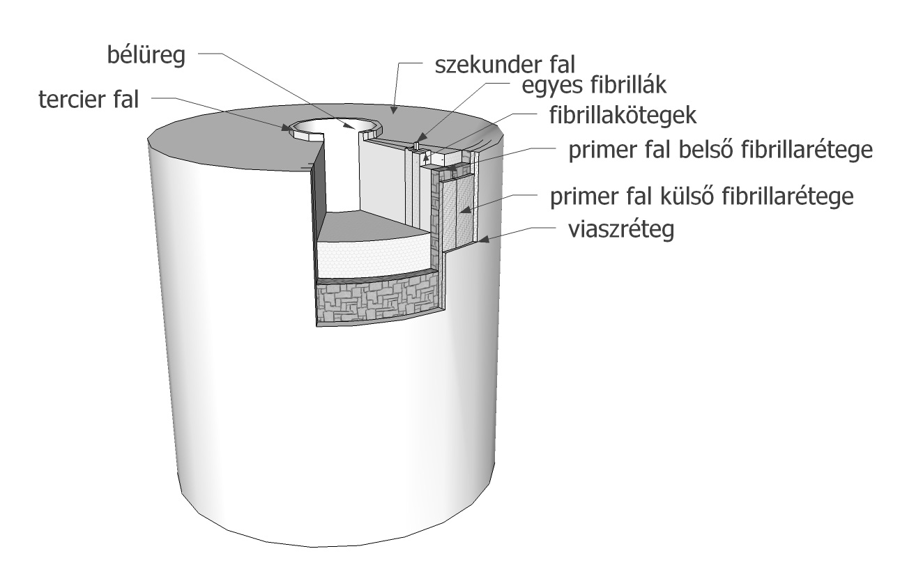 Schematic picture of cotton fibre structure, according to W. Kling and H. Mahl